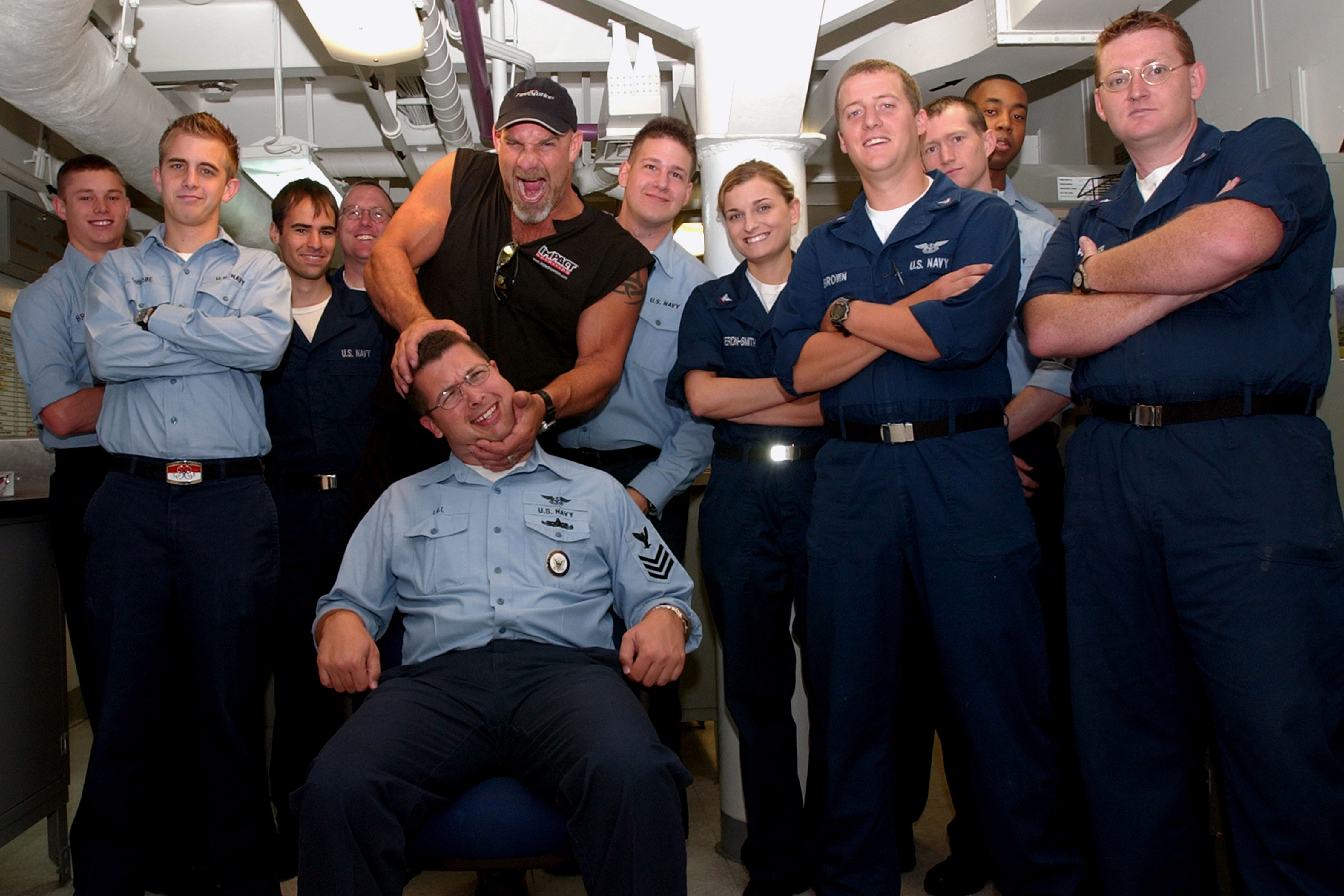 Pacific Ocean (May 19, 2005) - Professional wrestling champion and actor Bill Goldberg takes a moment to pose with the photographers of Operations Department’s OP Division during his tour of USS Ronald Reagan (CVN 76). Goldberg was aboard Ronald Reagan to premier his new film, "The Longest Yard” and visit with the ship’s crew and embarked air wing personnel. The Nimitz-class nuclear powered aircraft carrier is currently underway in the Pacific Ocean conducting carrier qualifications for various west coast Fleet Replacement Squadrons (FRS). U.S. Navy photo by Photographer's Mate 3rd Class Aaron Burden (RELEASED)